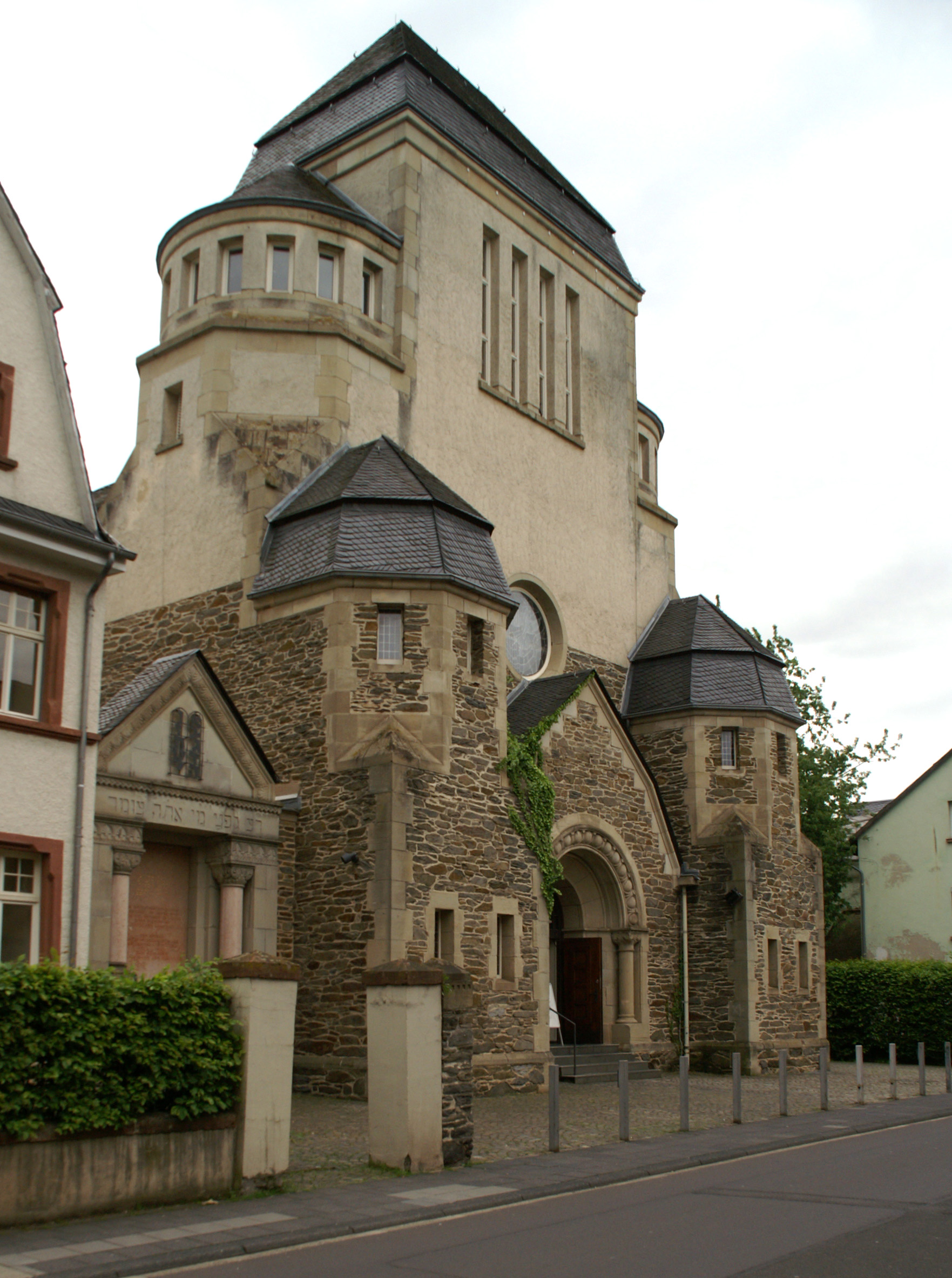 Former Synagogue in Wittlich, Germany